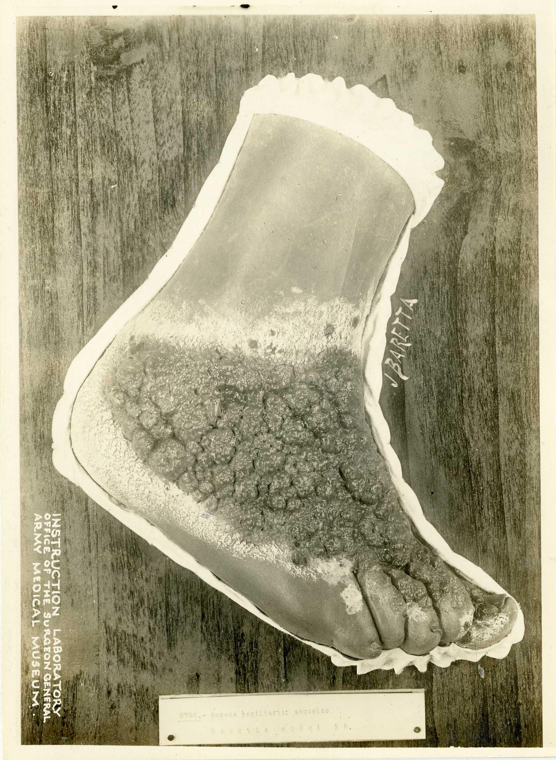 papillaris. Baretta wax model 22 of right foot. A.M.M. 9794. [Skin Diseases Also Dermatology. Models and modelmaking. Army Medical Museum]